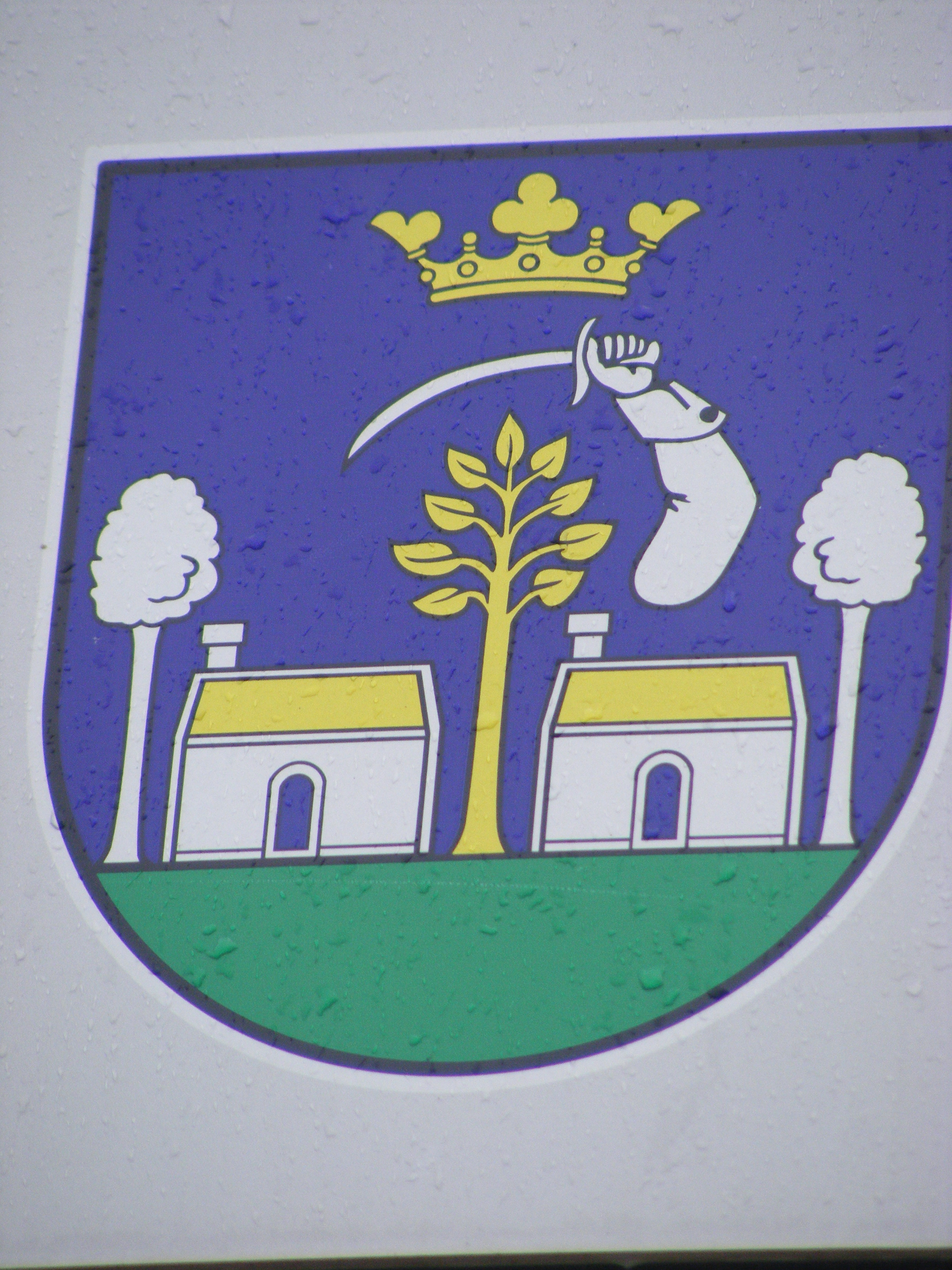 The emblem of Padáň, Slovakia